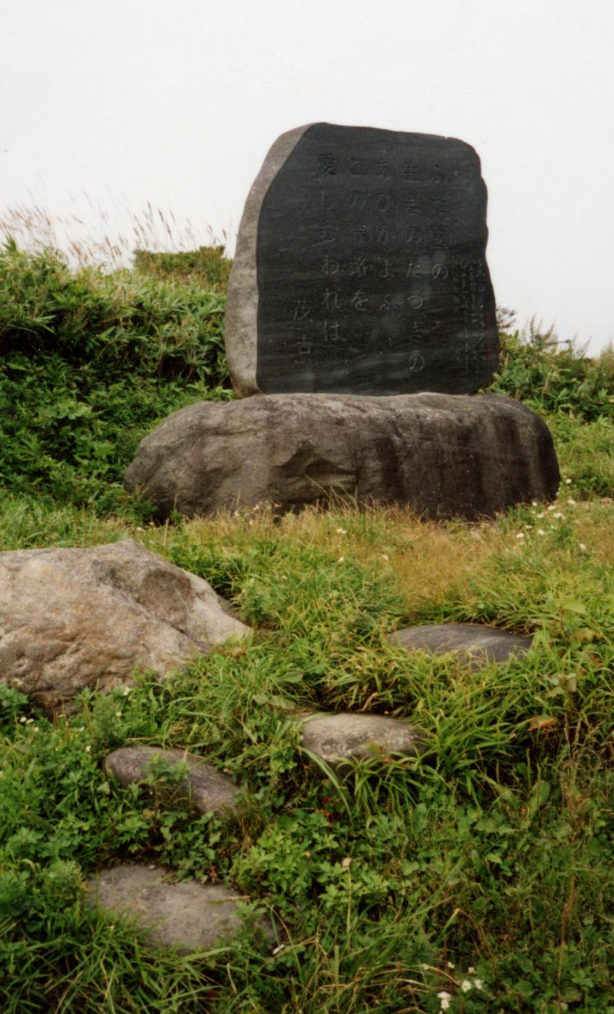 Description : A stone monument at the Sasaya-toge mountain pass (Miyagi and Yamagata prefectures, Japan). A 短歌 (Tanka, a Japanese traditinal form of song and poetry) by 斎藤茂吉(SAITO Mokichi) is inscribed on its surface: "ふた國の 生きのたづきの あひかよふ この峠路を 愛しむわれは"(Futakunino Ikinotadukino Aikayo kono togejiwo itoshimu ware wa) - would rougly be translated in English as "Matters of livings in two lands have met and crossed at this pass, where I love." Photographer : Uploader, myself. Date : 17, Sep., 2005 Camera : Konica Big Mini